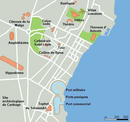 Made out of Image:Karta Karthago.PNG map of modern Carthage showing remaining ruins from punic and roman era, (own work composed from various mapreferences) date: 2005-04-25